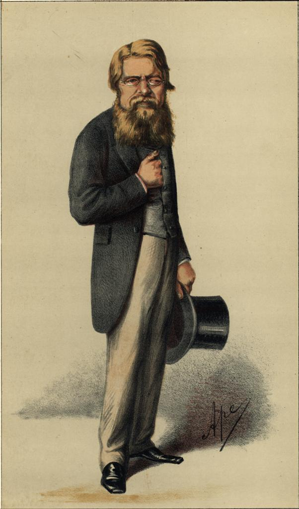 Northcote, Stafford Henry (Earl of Iddesleigh), Ape, "He Does His Duty to His Party, and Is Fortunate if It Happens to Be Also His Duty to His Country"